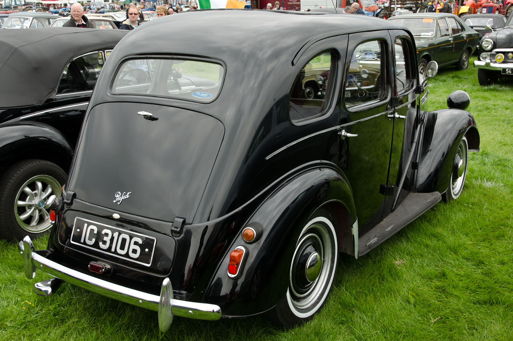 Llandudno Transport Festival 03/05/2014